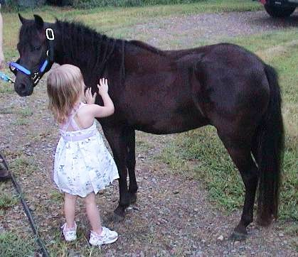 Both 3 years old.